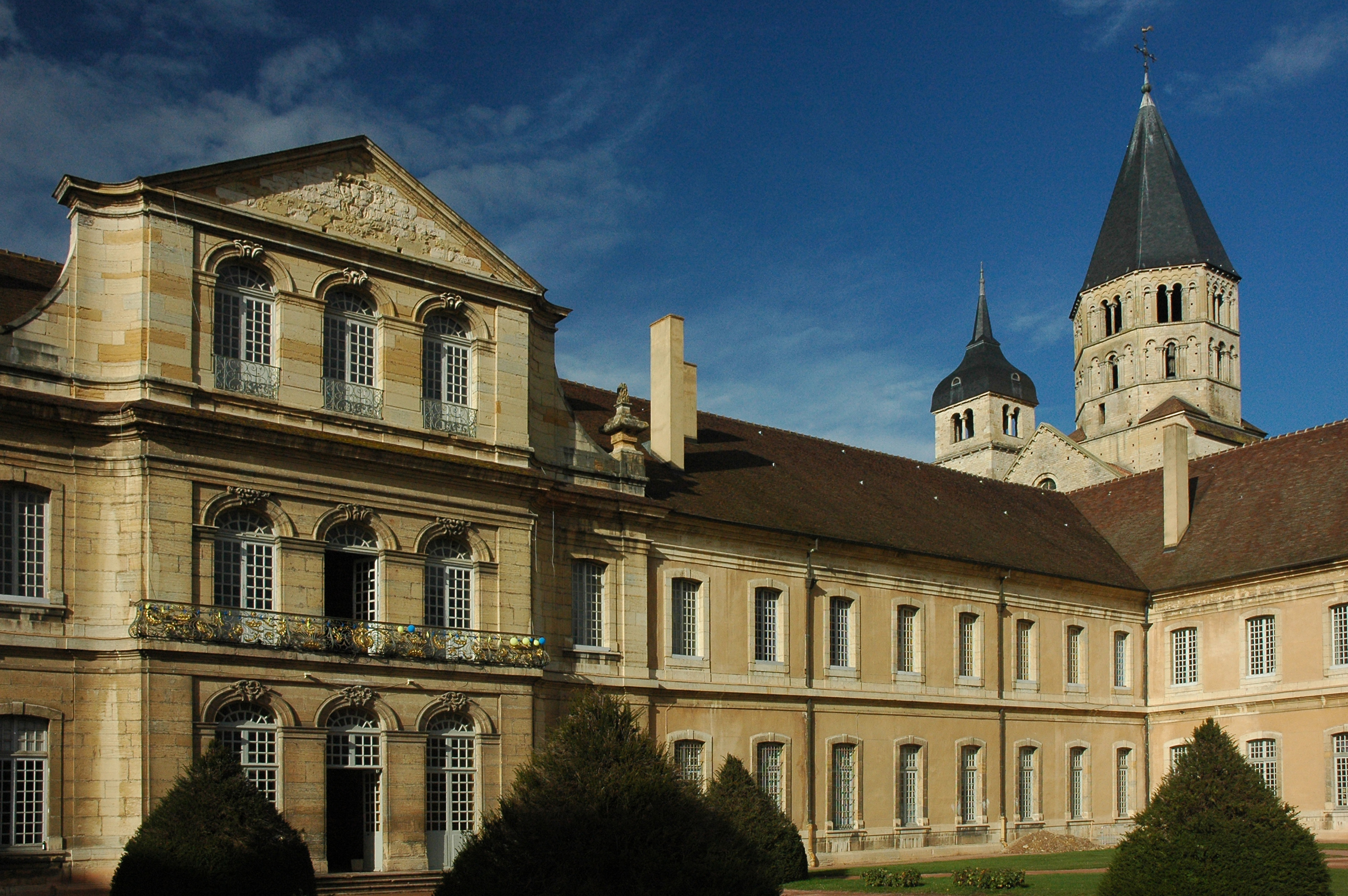 Abbey of Cluny France